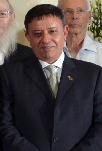 Avi Gabai - Minister of Environmental Protection in Thirty-fourth government of Israel.